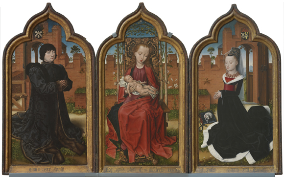 Triptych of Jan de Witte and Marie Hoose